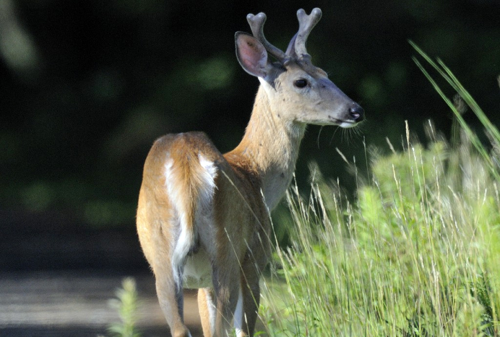 Male White-tailed Deer photographed at the powerline crossing near Gate 35, Quabbin Reservoir, near South Athol, MA, on 10 July 2011. credit: Bill Thompson